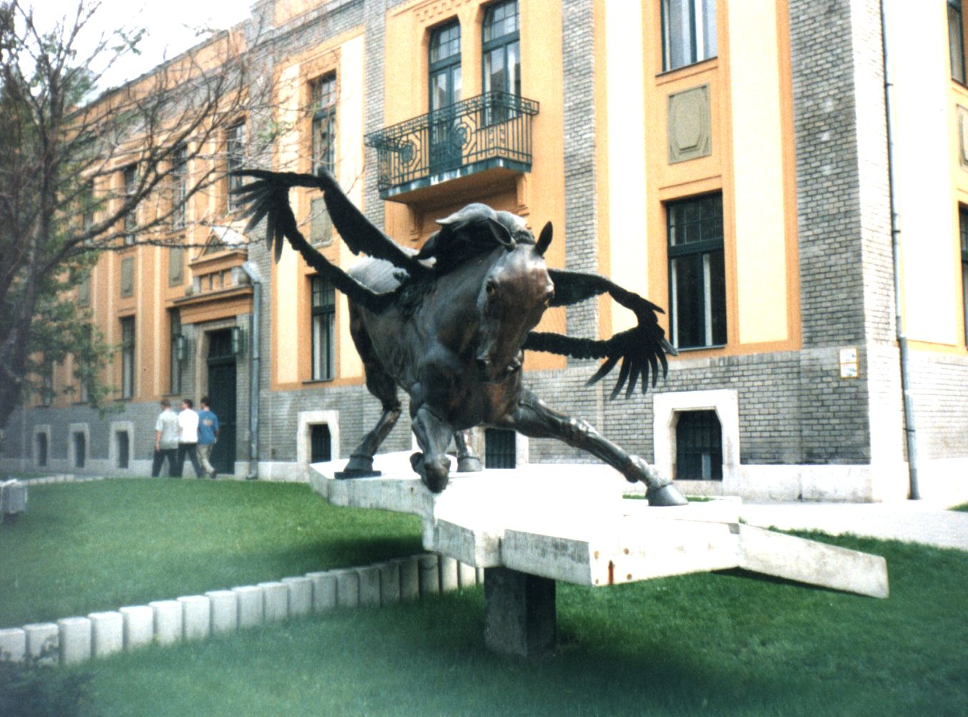 The horse modern bronze statue. Concrete, artificial stone. - Photo taken by Biser Todorov 2002- Pegasus, Budapest, Hungary